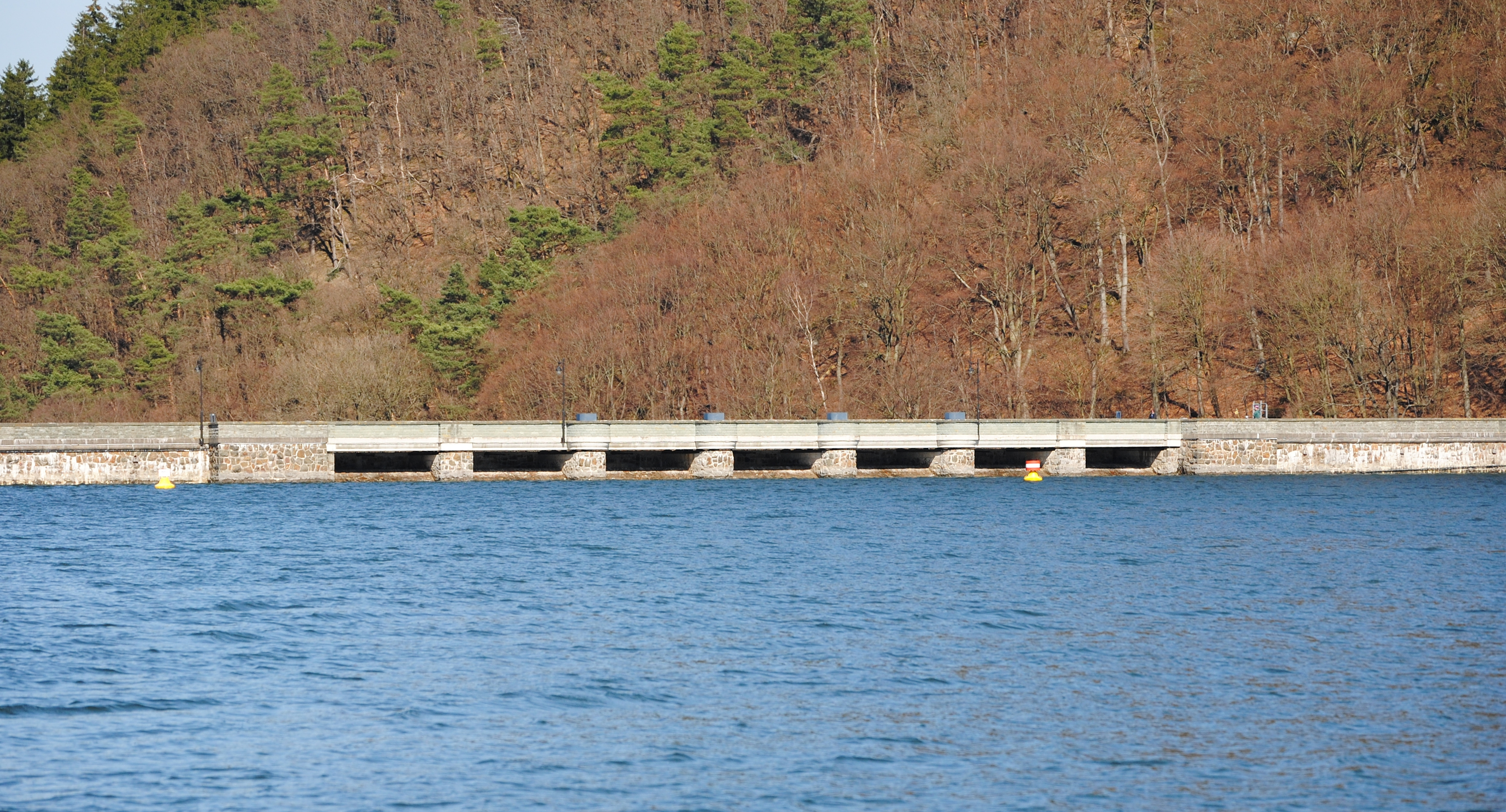 The dam, south-side view, on the Diemelsee, Hesse, Germany.